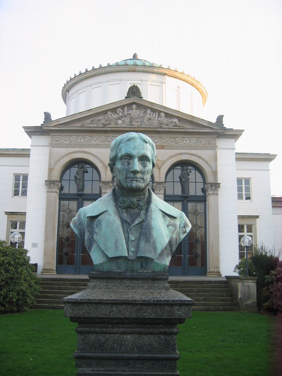 Spa Garden in Bad Oeynhausen, District of Minden-Lübbecke, North Rhine-Westphalia, Germany.